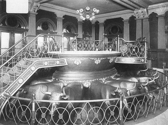 photograph of the baptismal font in the Salt Lake temple of The Church of Jesus Christ of Latter-day Saints.